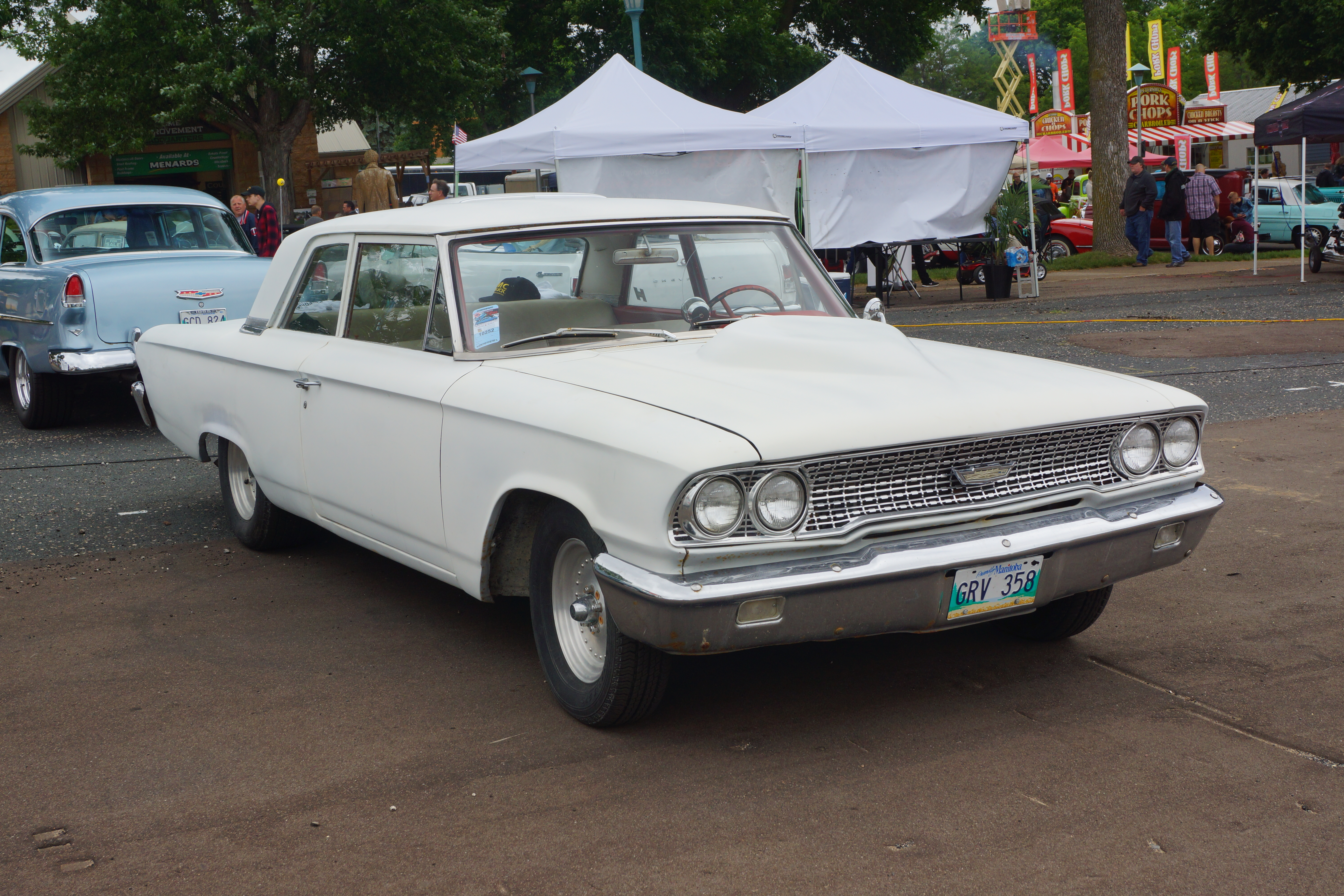 Minnesota Street Rod Association (MSRA) “BACK TO THE 50′s” 44th Annual Car Show June 23-25, 2017 Minnesota State Fairgrounds St. Paul Minnesota Space Tower view of "Back to the 50's". Click here for previous "Back to the 50's" pictures.. Click here for more car pictures at my Flickr site. Or here for my Car Crazy Tumblr site. Or on Twitter @DVS1mn.